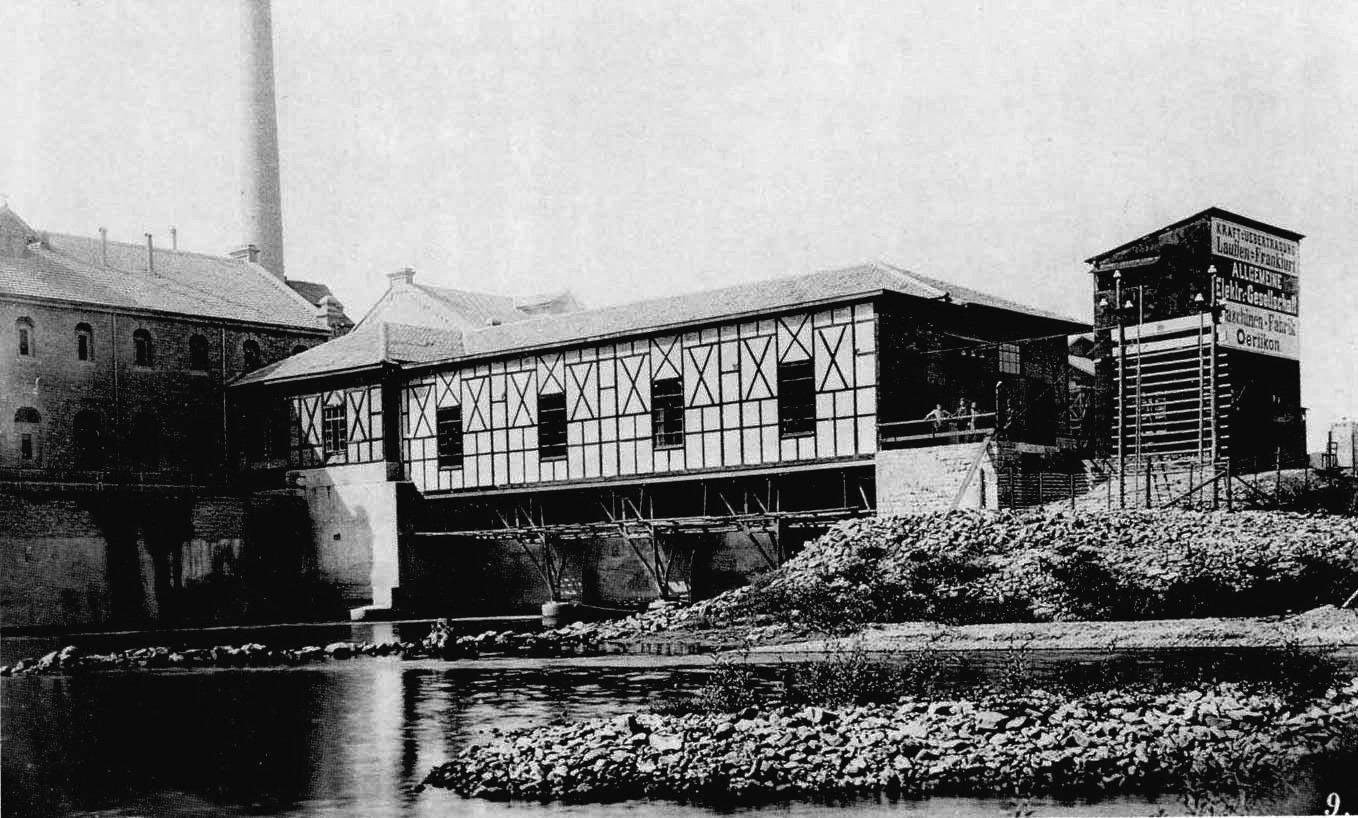 Building of the first commercial AC power station at Lauffen am Neckar.